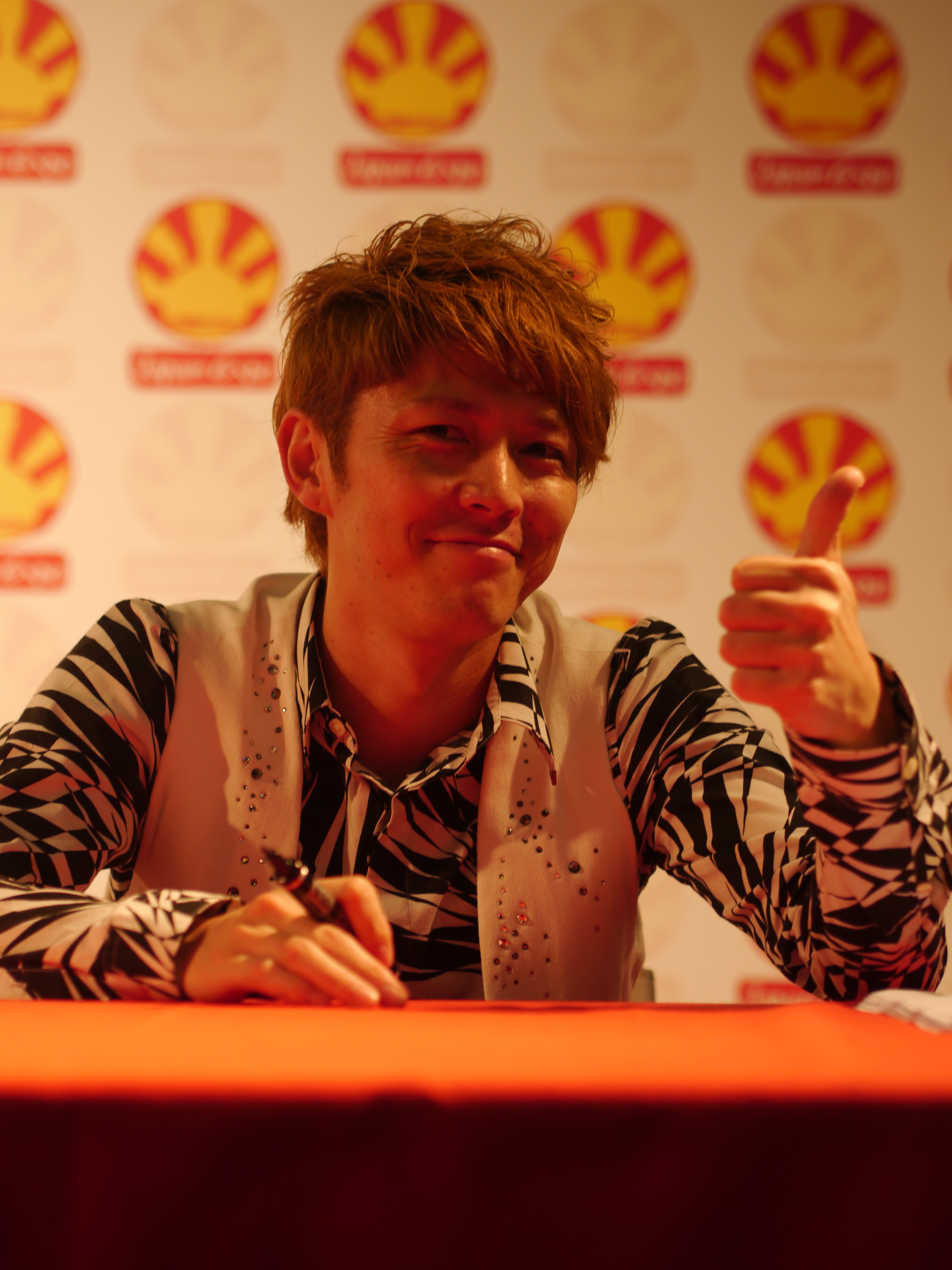 Japan Expo Festival, 13th impact